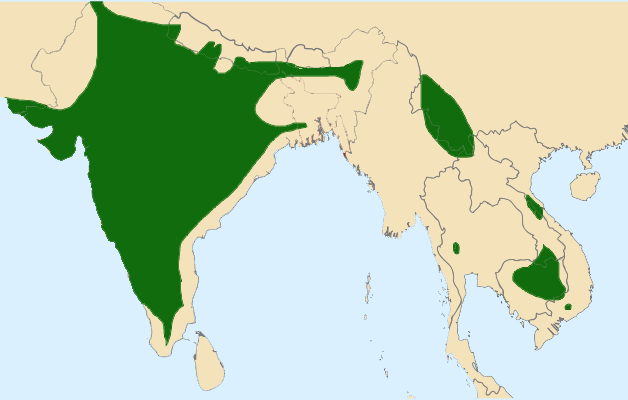 Distribution of Red-headed Vulture.